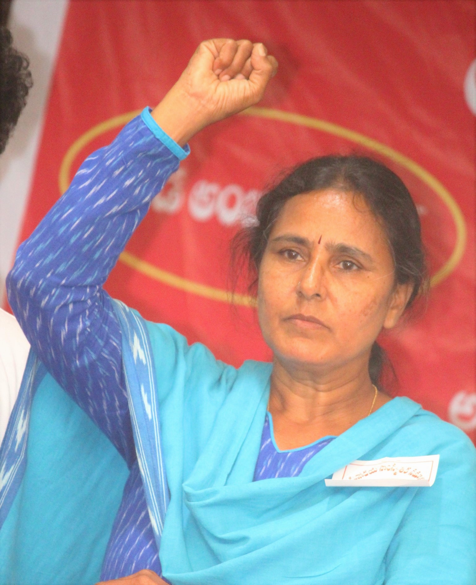 Vimalakka - Singer, Social Activist